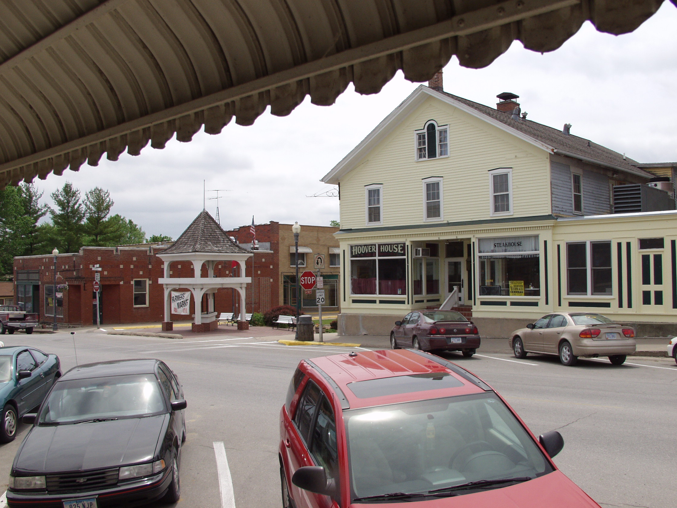 West Branch, Iowa. I, Rob Poggenklass, took this picture in June 2005. It is a photograph of the center of downtown West Branch, and includes the Hoover House as well as the gazebo in Heritage Square.